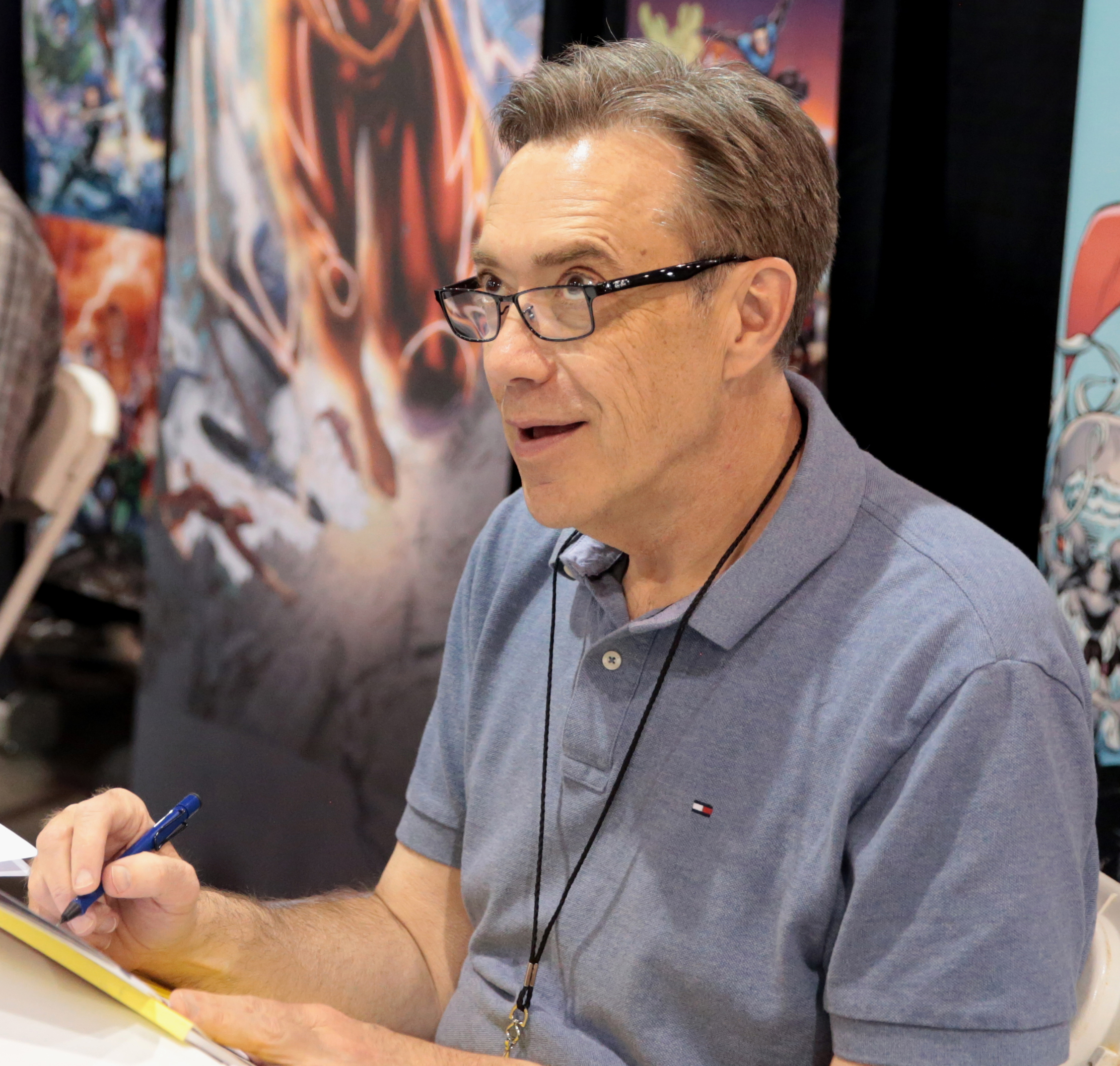 Dan Jurgens speaking at the 2017 Phoenix Comicon in Phoenix, Arizona.